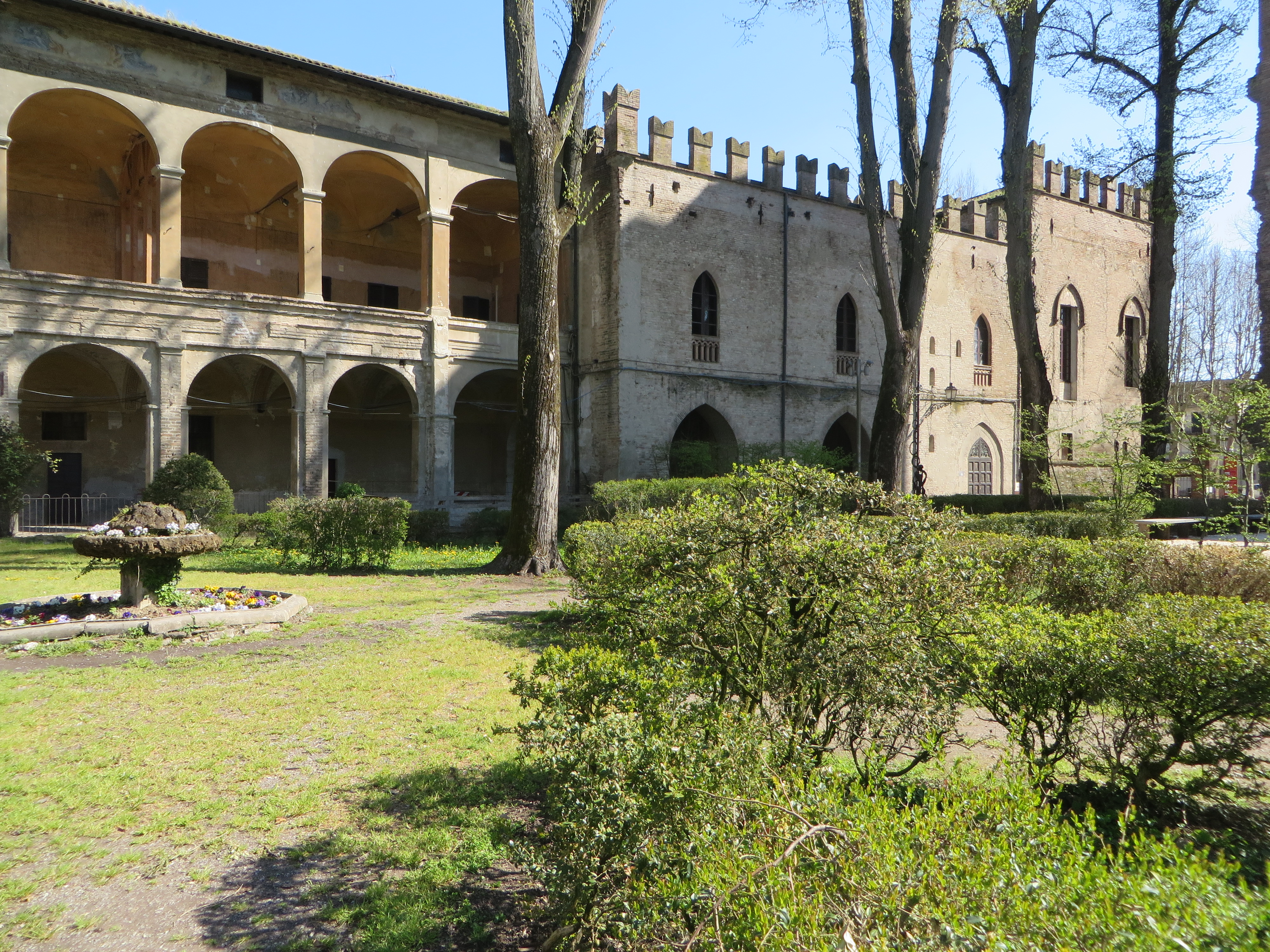 Castle